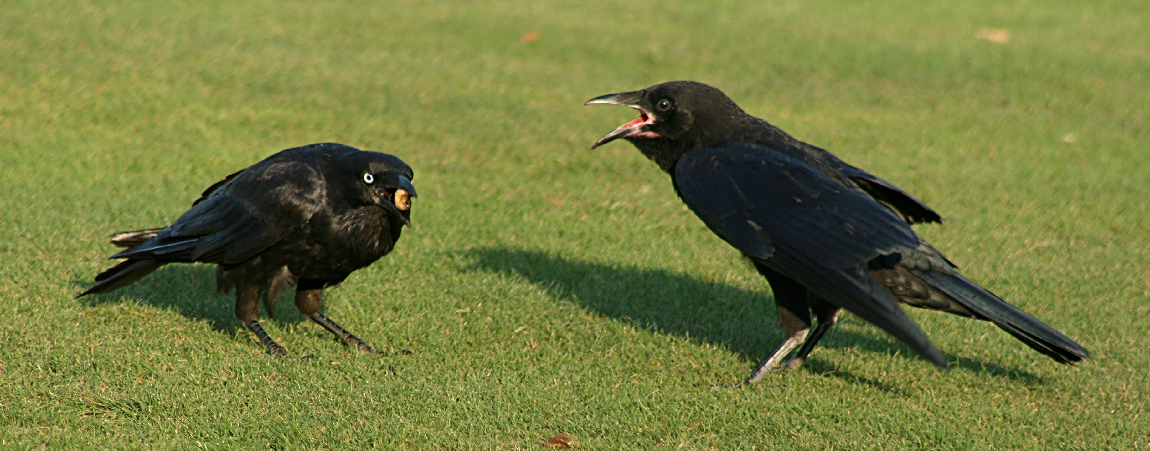 Two Little Ravens (Corvus mellori) in Thredbo, an alpine region of New South Wales, Australia. On the right is a juvenile (note the dark eyes) calling for food. The mother on the left has just found a grub and is about to pass it over.